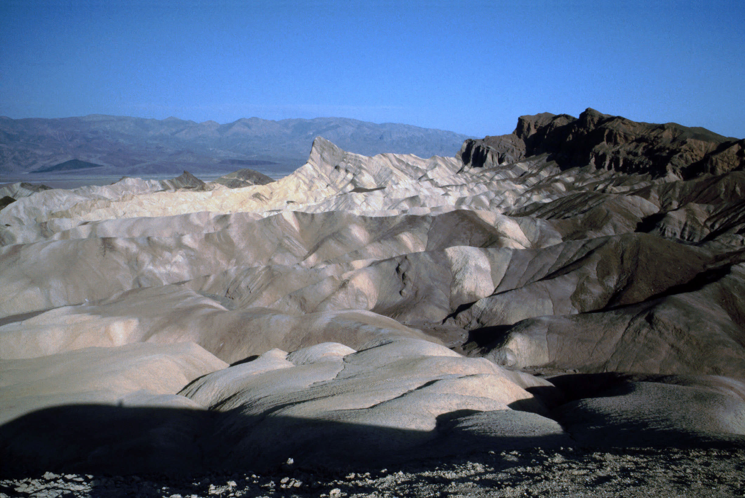 Death Valley,Zabriskie Point,Manly Beacon at rise